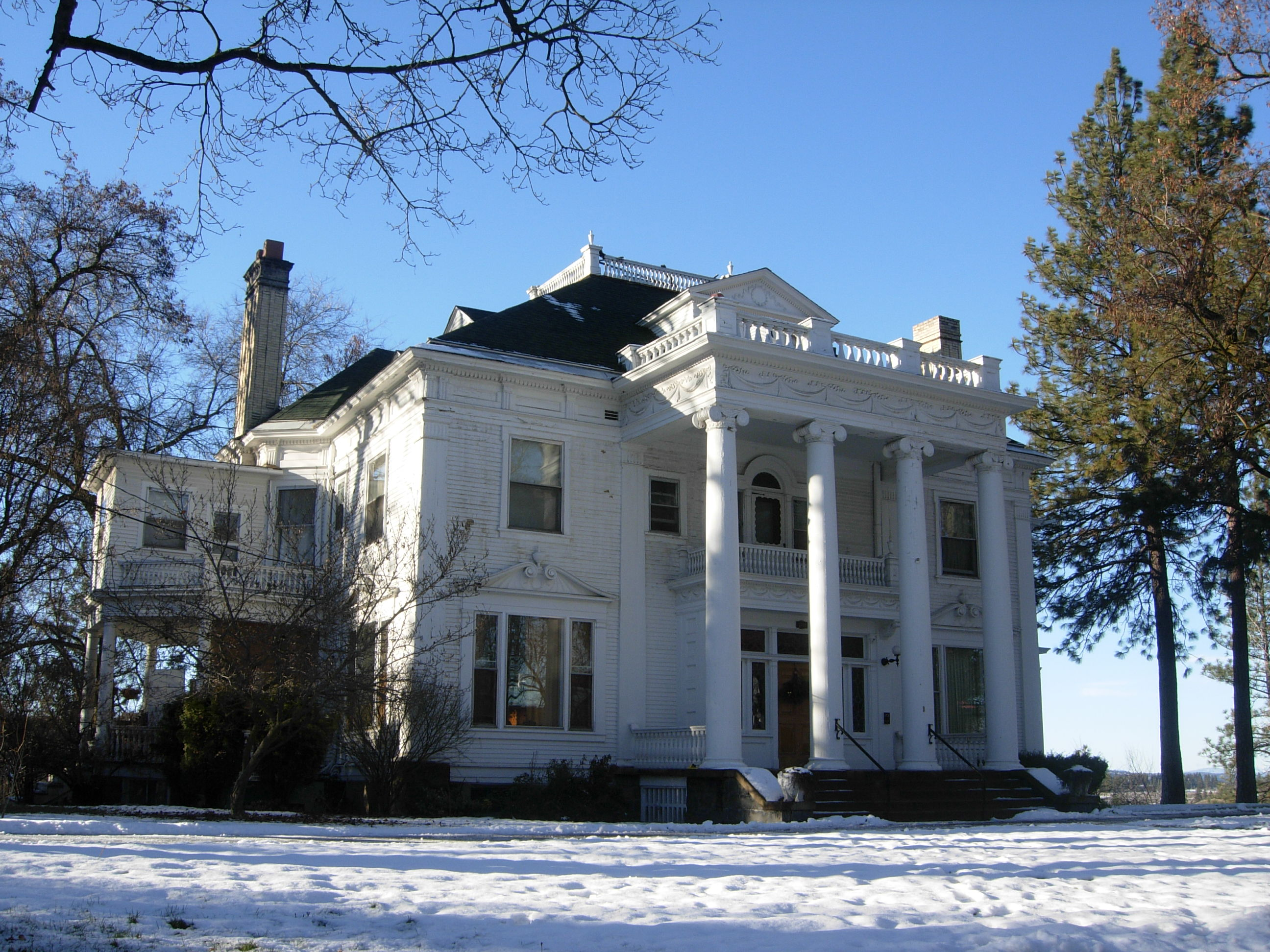 The Finch House in Spokane, Washington